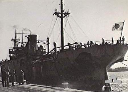 MV Kōei Maru : Japanese cargo ship launched in 1933, completed in 1934. 6774grt. Used as an Auxiliary Mine Layer by IJN in WW2. She arrived at Melbourne for the purpose of repatriating interned POW and civilians.